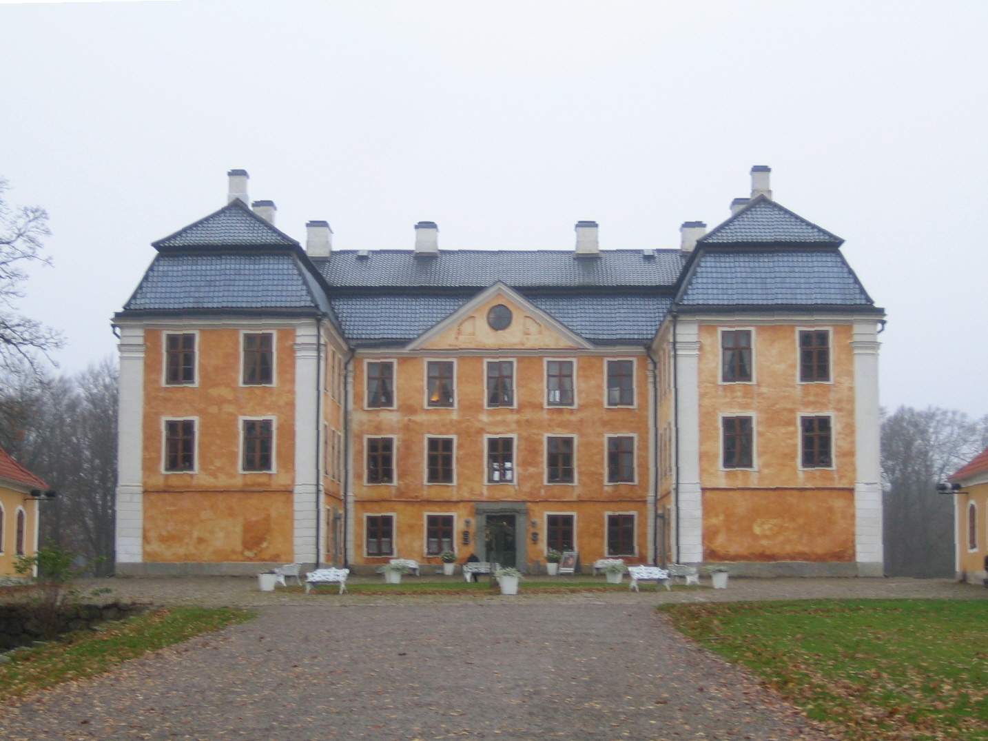 Picture of Christinehof castle, Scania.